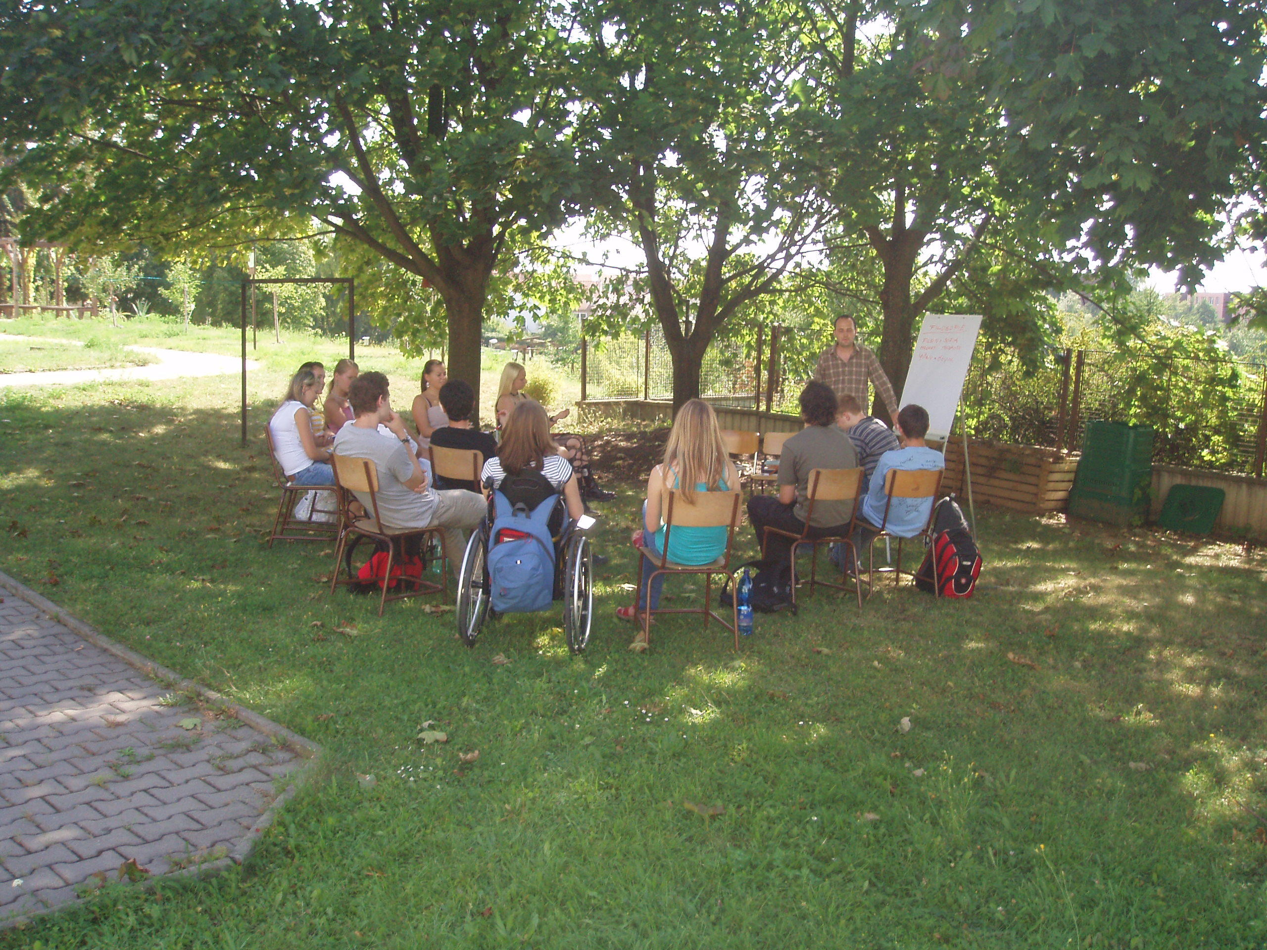 Education on Gymnazium INTEGRA BRNO